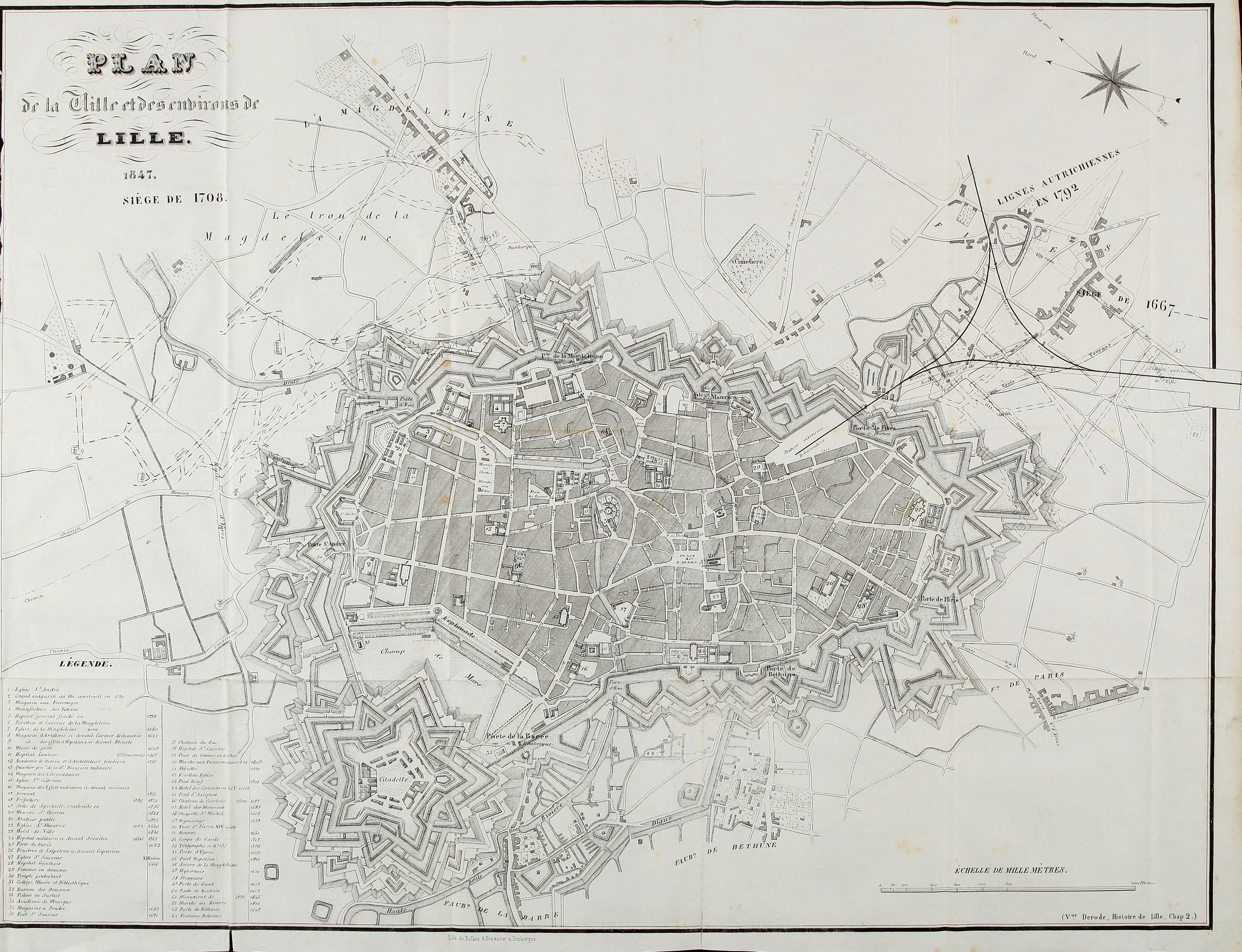 Identifier: Histoire de Lille e 00dero (find matches) Title: Histoire de Lille et de la Flandre wallonne Year: 1848 (1840s) Authors: Derode, Victor, 1797-1867 Subjects: Lille, France Flanders Publisher: Lille Librairie de Vanackere →